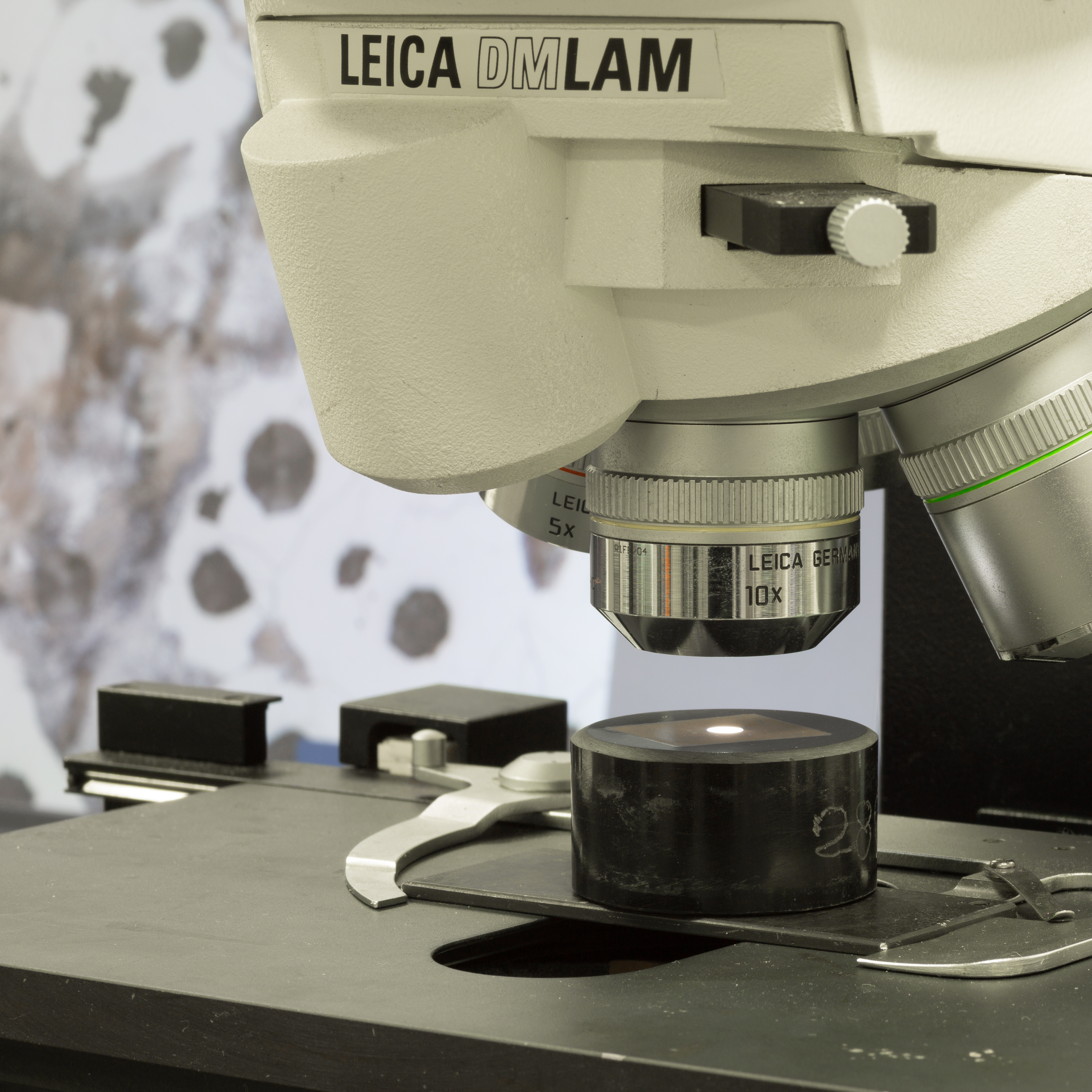 Electronic Microscope